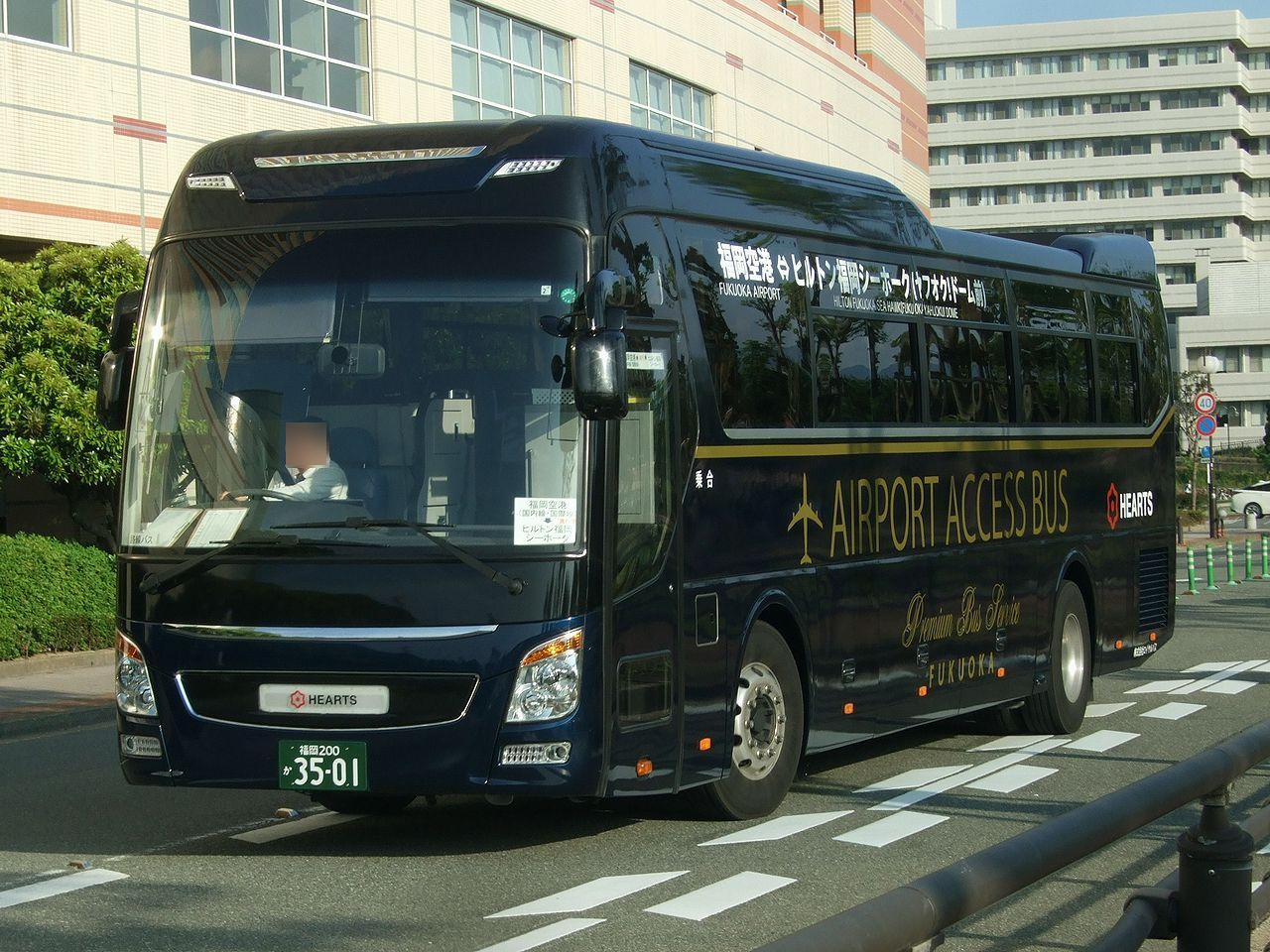 Fukuoka Airport Access Bus operated between Fukuoka Airport and Hilton Fukuoka Sea Hawk Hotel. Company:Royal Bus Use:transit bus Car license:FOF200 KA 3501 Car manufacturer:Hyundai Motor Company Type:Universe Location:in Chuo Ward, Fukuoka City, Fukuoka, Japan.